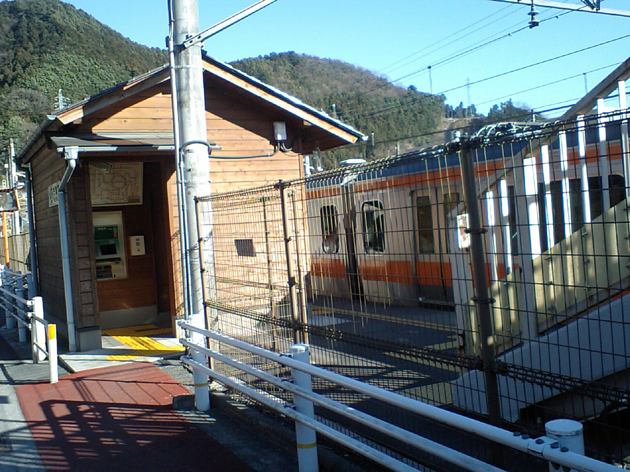 North Exit of Kori Station, Ome Line